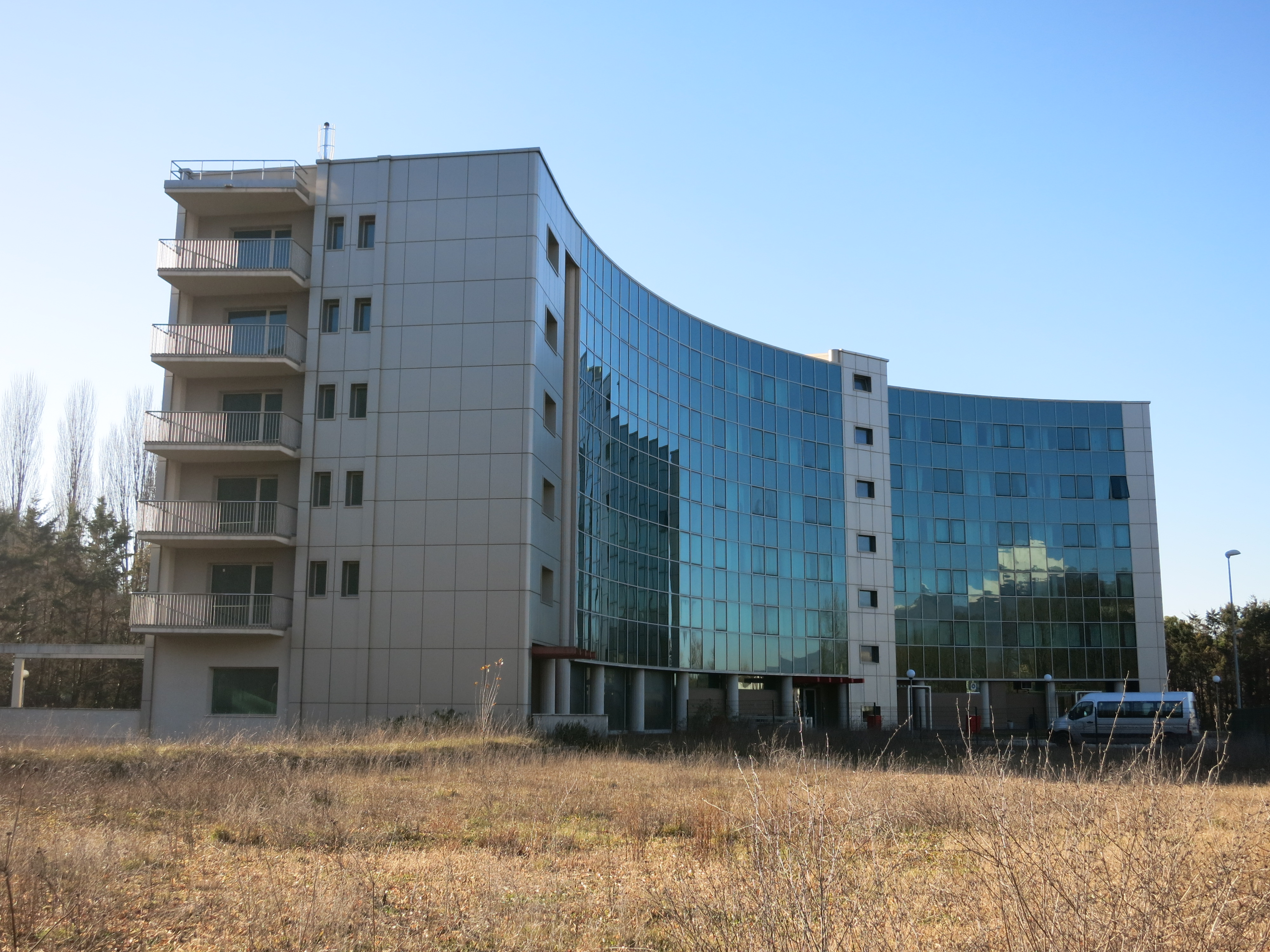 The building which provides accommodation for students of Istituto Alberghiero Costaggini high school in Rieti (Lazio, Italy)